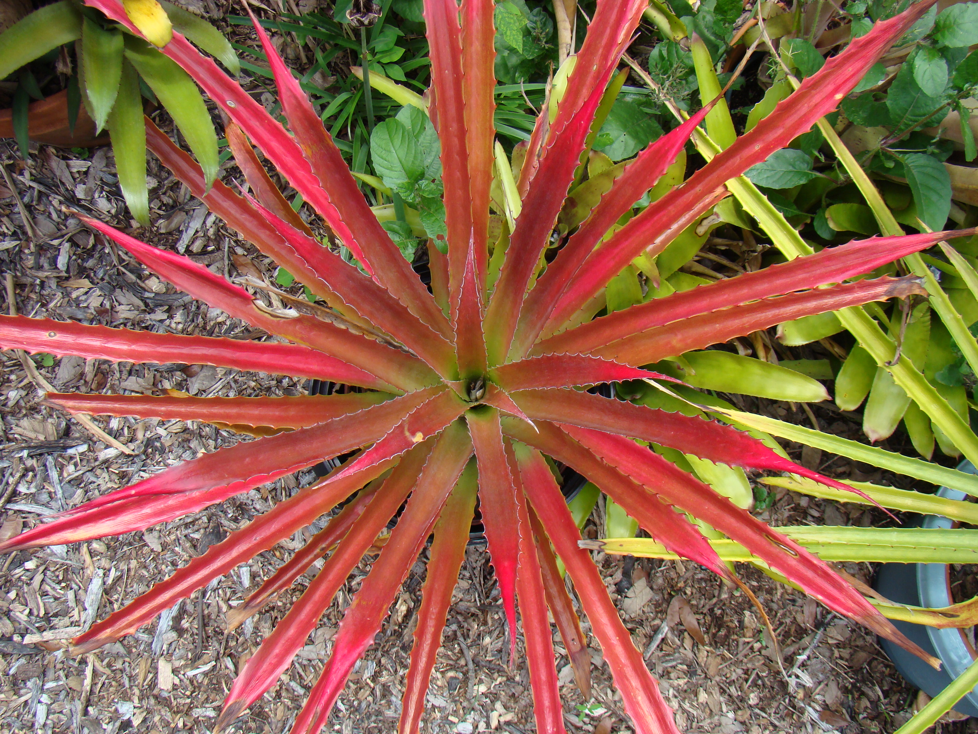 Dyckia "Red" (Dyckia / Bromeliaceae) in the Bromeliad collection of the University Of South Florida Botanical Garden, Tampa, Florida.